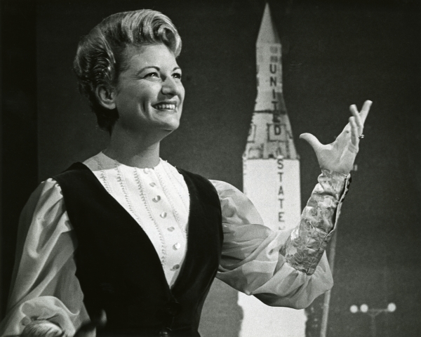 Scene from the WFSU production of "Miss Nancy's Store" in Tallahassee.